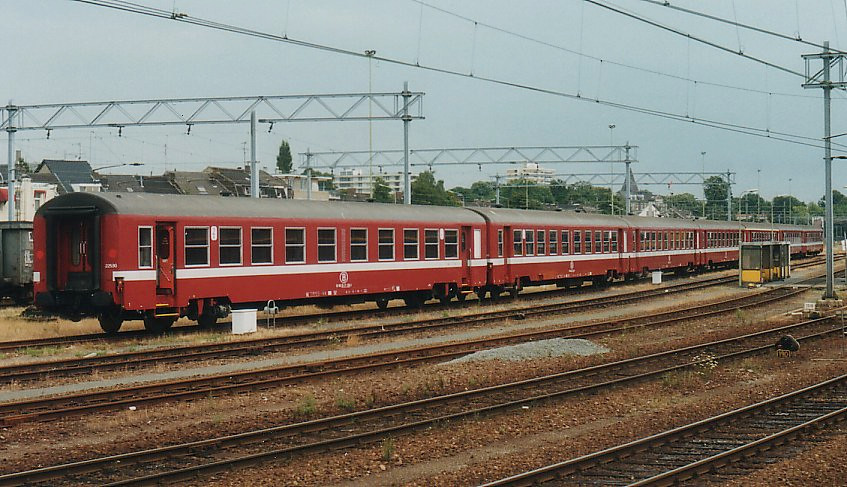 NS coaches class K4, hired from the SNCB, at Maastricht.